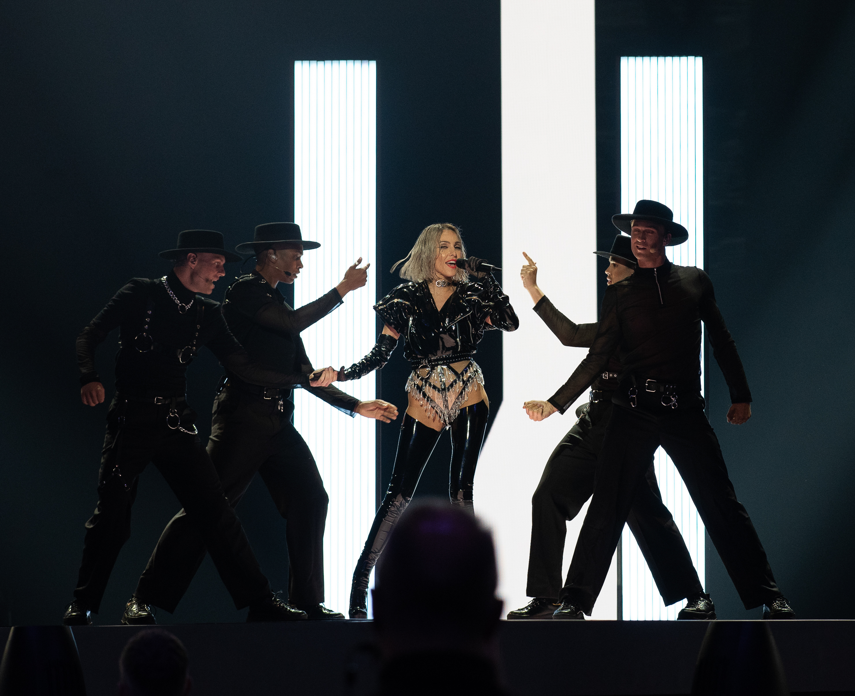 At the 2019 Eurovision Song Contest Semi-final 1 dress rehearsal